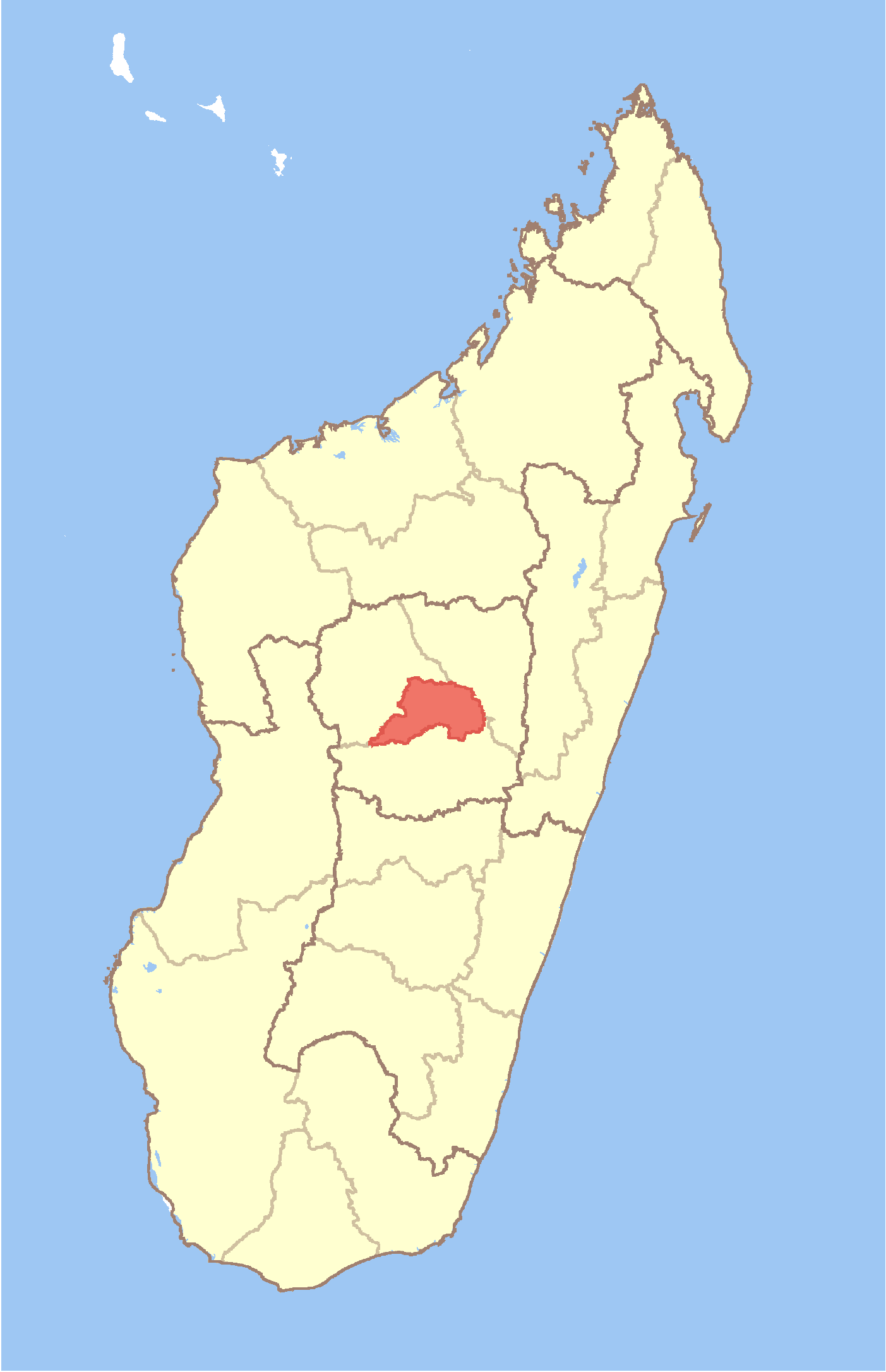 Map of Madagascar with Itasy Region highlighted